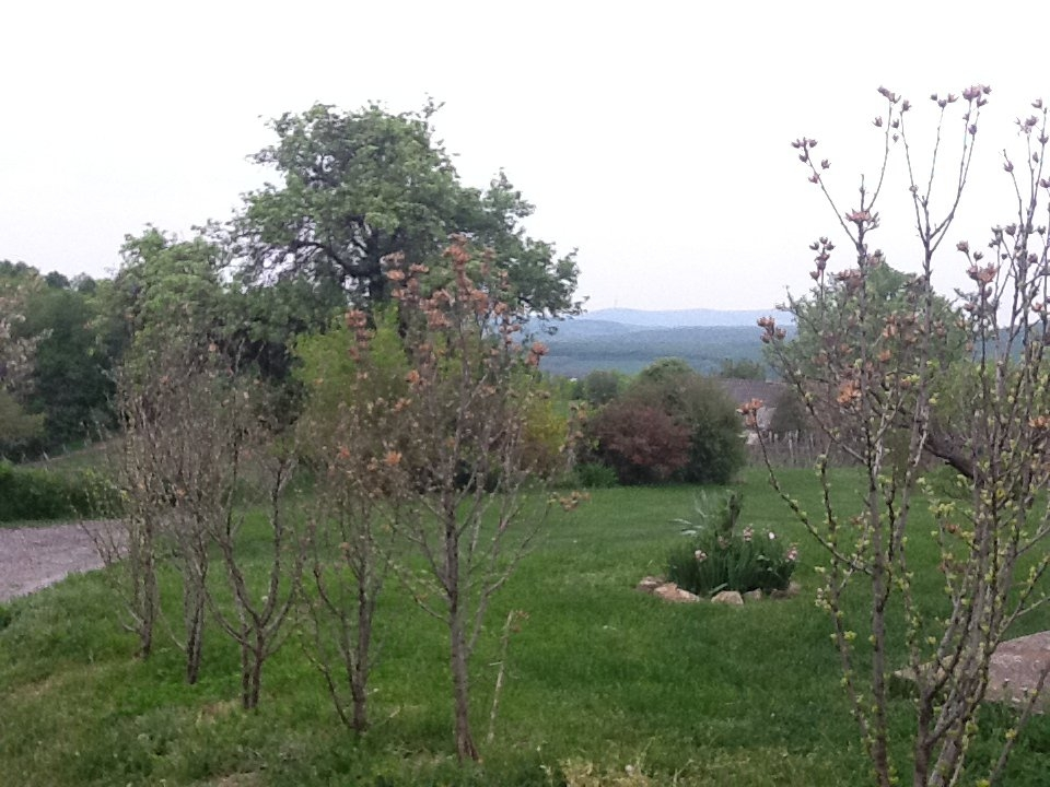 Mediterranean spring among the winecellars of Hungarian village Hosszúhetény.